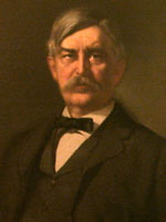 John Q. A. Brackett (1842-1918)